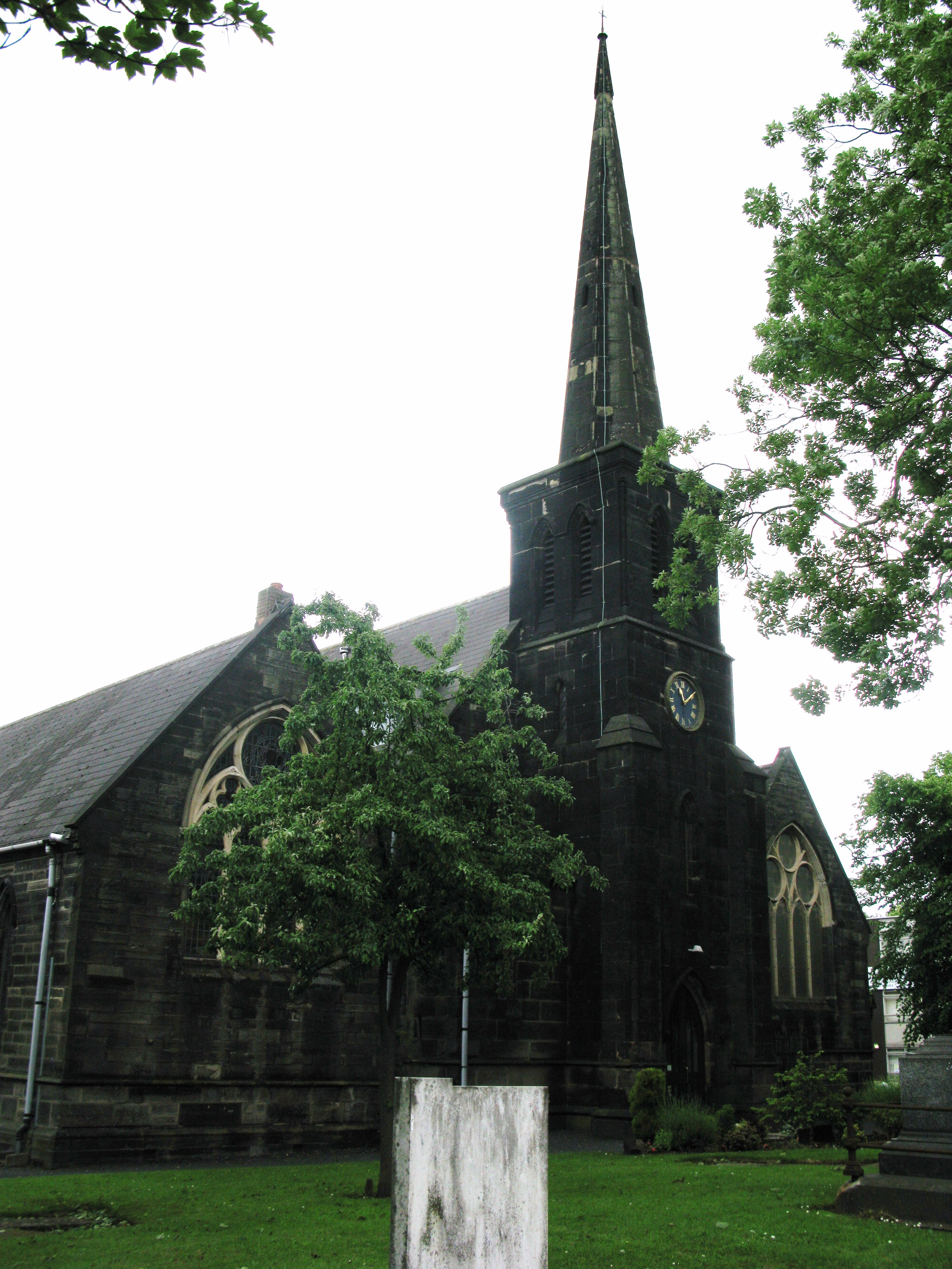 Grade II